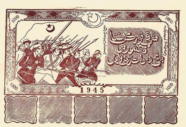 A banknote issued by the government of the Second (2nd) East Turkestan Republic.